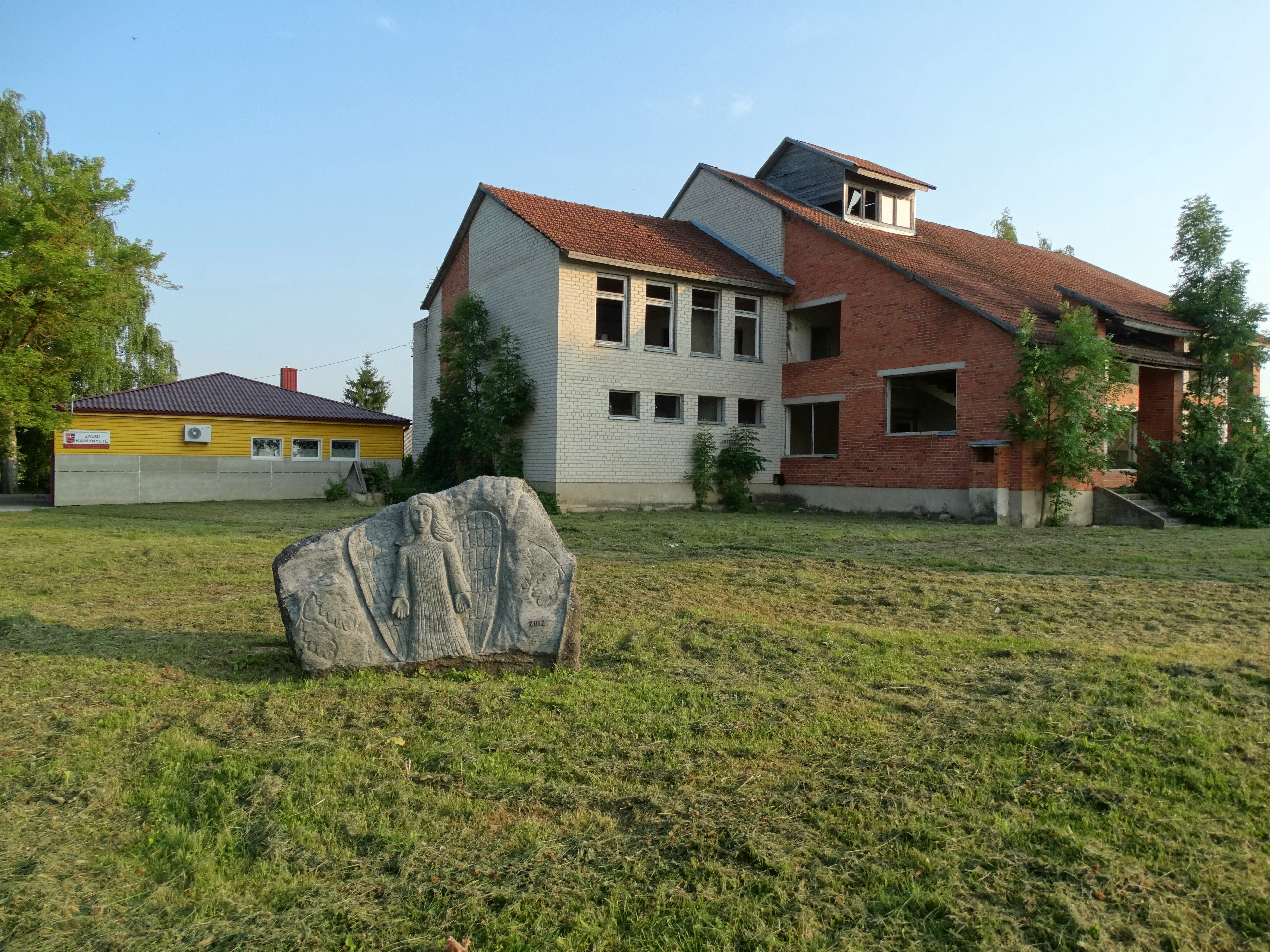 Linkaičiai, Joniškis District, Lithuania